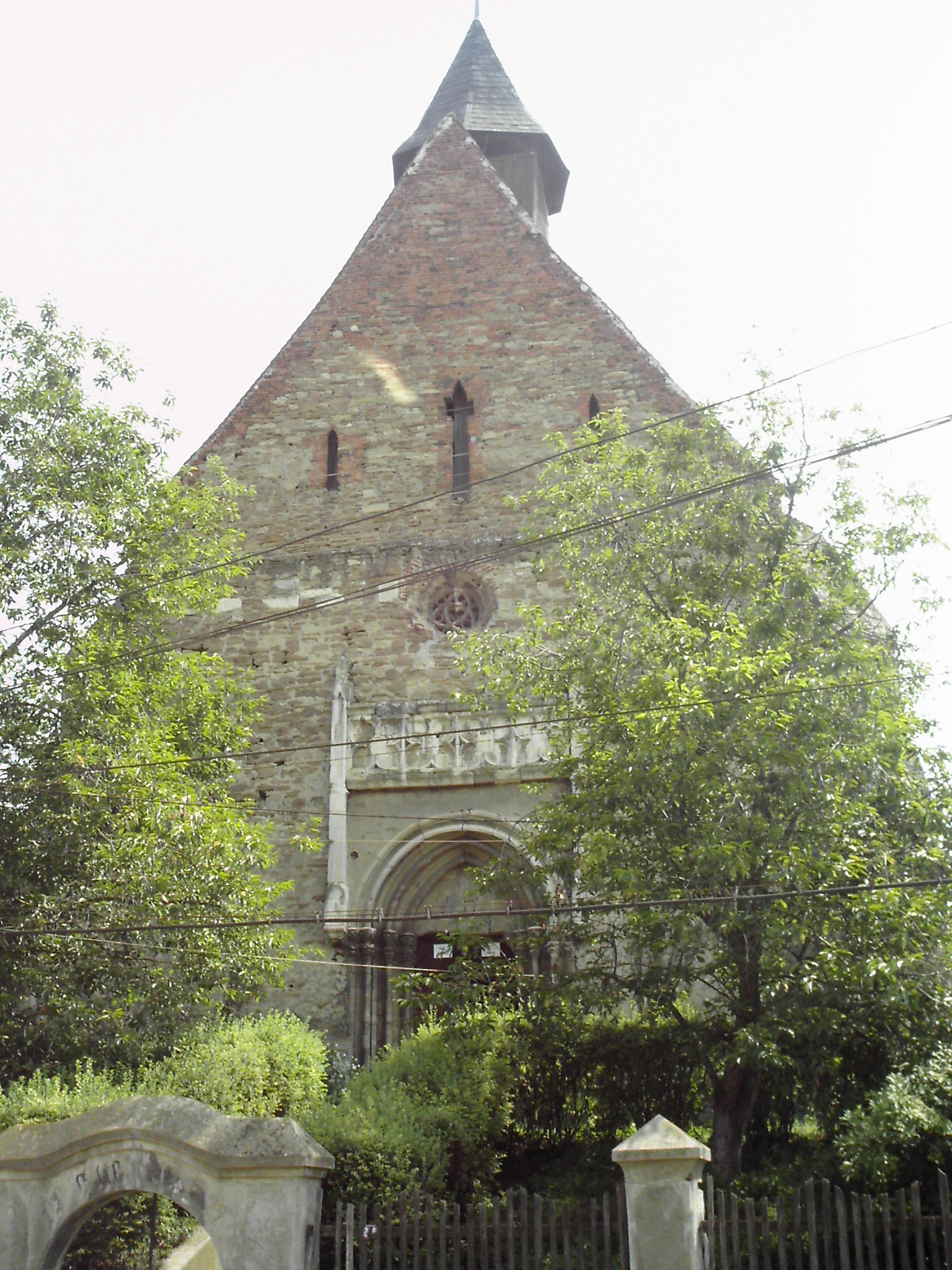 Transylvanian Saxon Church in Darlos, Romania